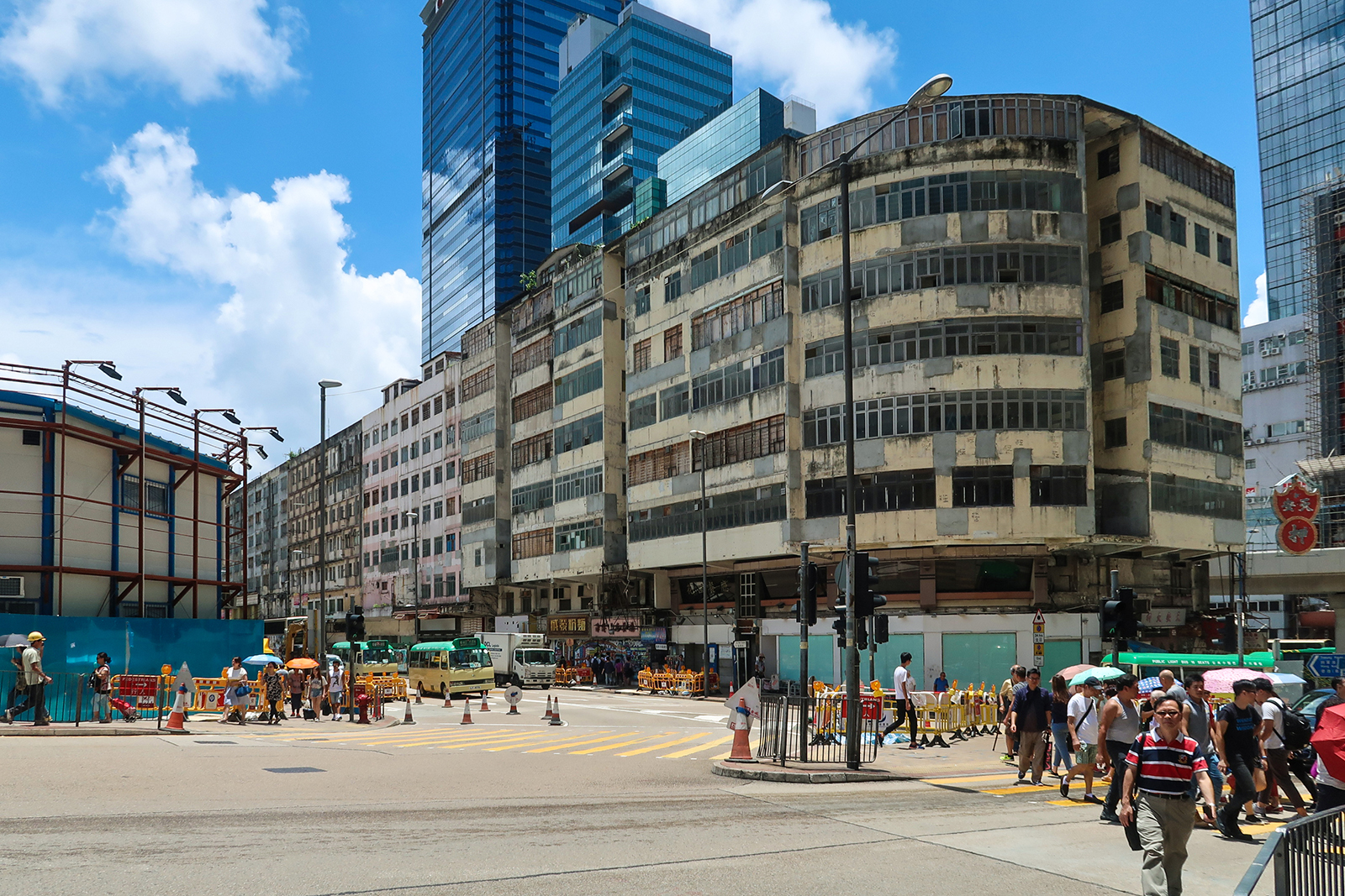 Yue Man Building